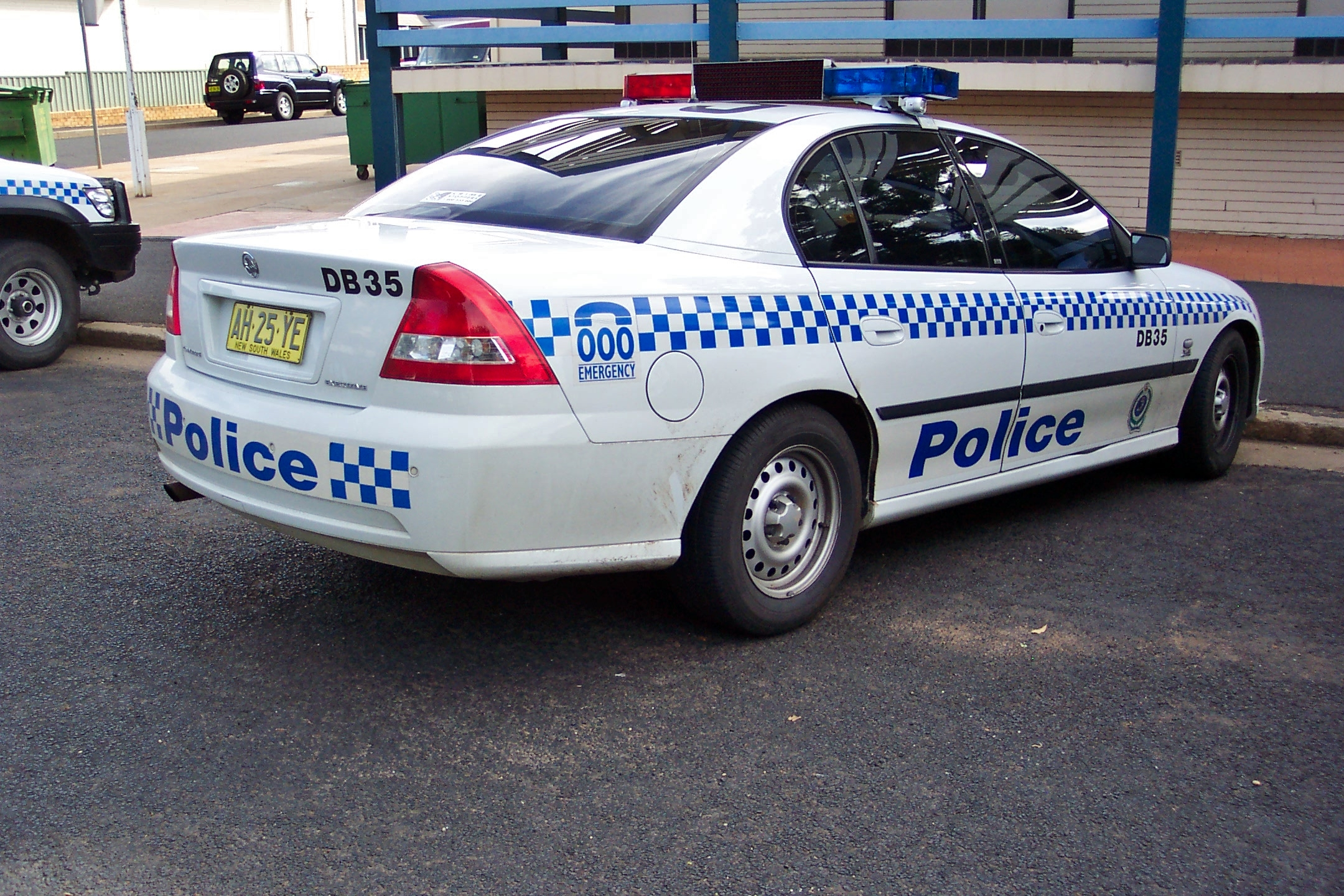 2005 Holden VZ Commodore Executive sedan. Operated by the New South Wales Police. Callsign DB35 (Dubbo Police Station - Orana Local Area Command). Dubbo uses both DU and DB identifiers on its vehicles. Taken outside Dubbo Police station.